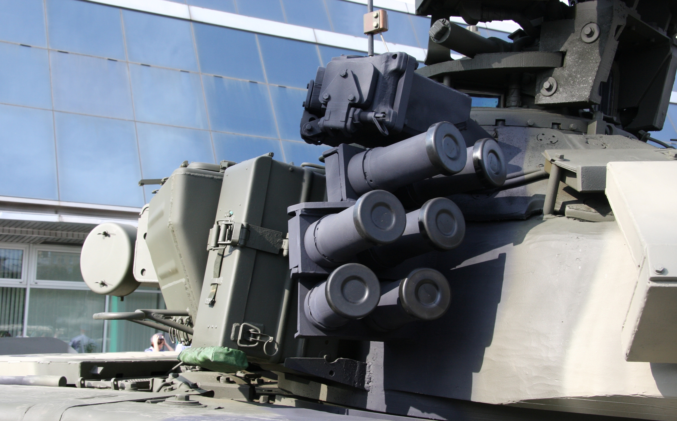 The Ministry of Defence of Russia exposition in open access. On display are among others a T-90S and a T-80U tank.